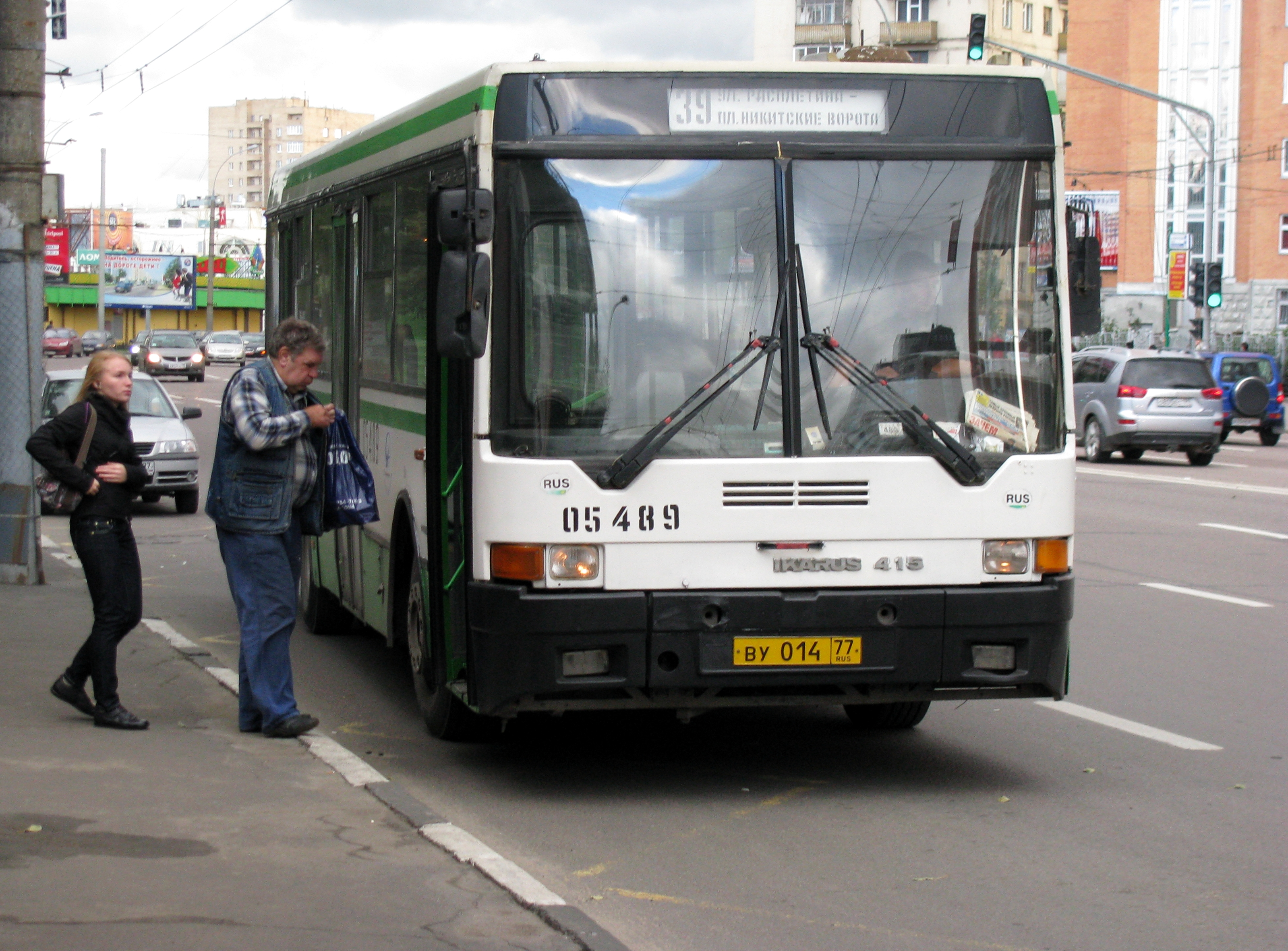 Bus Ikarus-415.33 in Moscow